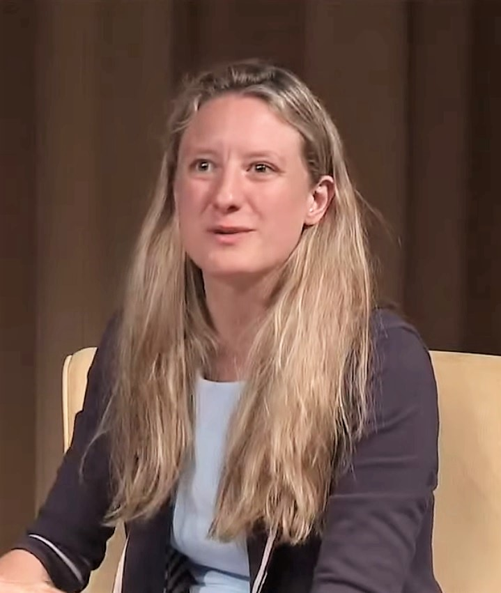 The Female Candidate for Office: Challenges and Hurdles* In the 116th Congress, a record of 127 women are serving as Representatives and 25 as Senators, only 28% of the entire Congress. What factors account for these large gaps between men and women serving in Congress? Do women face challenges throughout the media that cross party lines, and do voters show a tendency to hold women to a higher standard in the media than men? With constant news coverage, running a negative advertisement against an opponent may cause far more intense backlash for a female than a male. Moderated by Washington Post columnist Alexandra Petri, panelists include Ann Lewis, former White House Director of Communications; and former members of Congress Connie Morella, and others. Presented in partnership with the U.S. Association of Former Members of Congress, the 2020 Women’s Vote Centennial Initiative and the National Women’s History Alliance. Rightfully Hers programs are made possible in part by the National Archives Foundation through the generous support of Unilever, Pivotal Ventures, Carl M. Freeman Foundation in honor of Virginia Allen Freeman, AARP, AT&T, Ford Motor Company Fund, Facebook, Barbara Lee Family Foundation Fund at the Boston Foundation, Google, HISTORY®, and Jacqueline B. Mars. Additional support provided by the Bernstein Family Foundation and the Hearst Foundations.